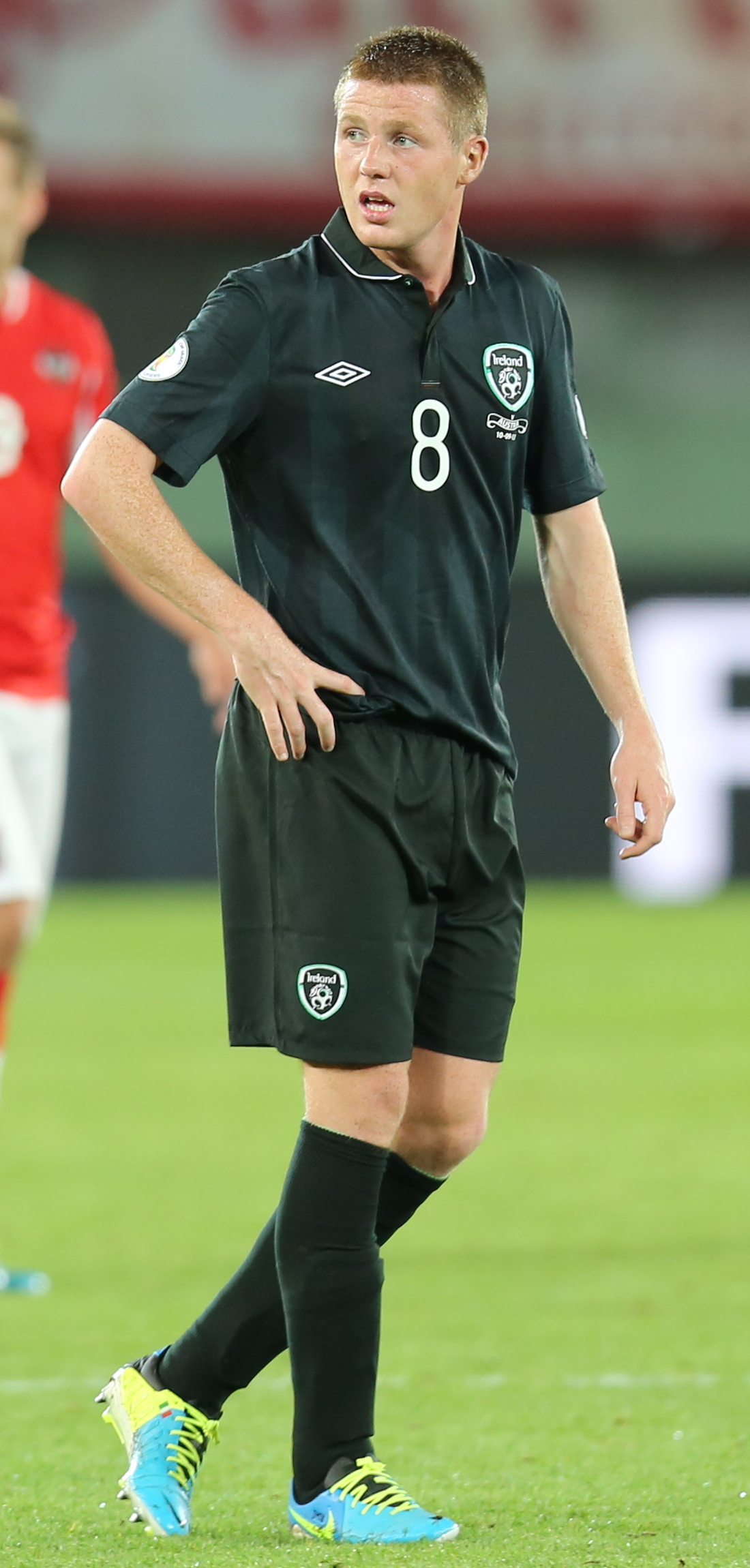 James McCarthy with Republic of Ireland national football team This file has been extracted from another file: FIFA WC-qualification 2014 - Austria vs Ireland 2013-09-10 - James McCarthy 04.JPG